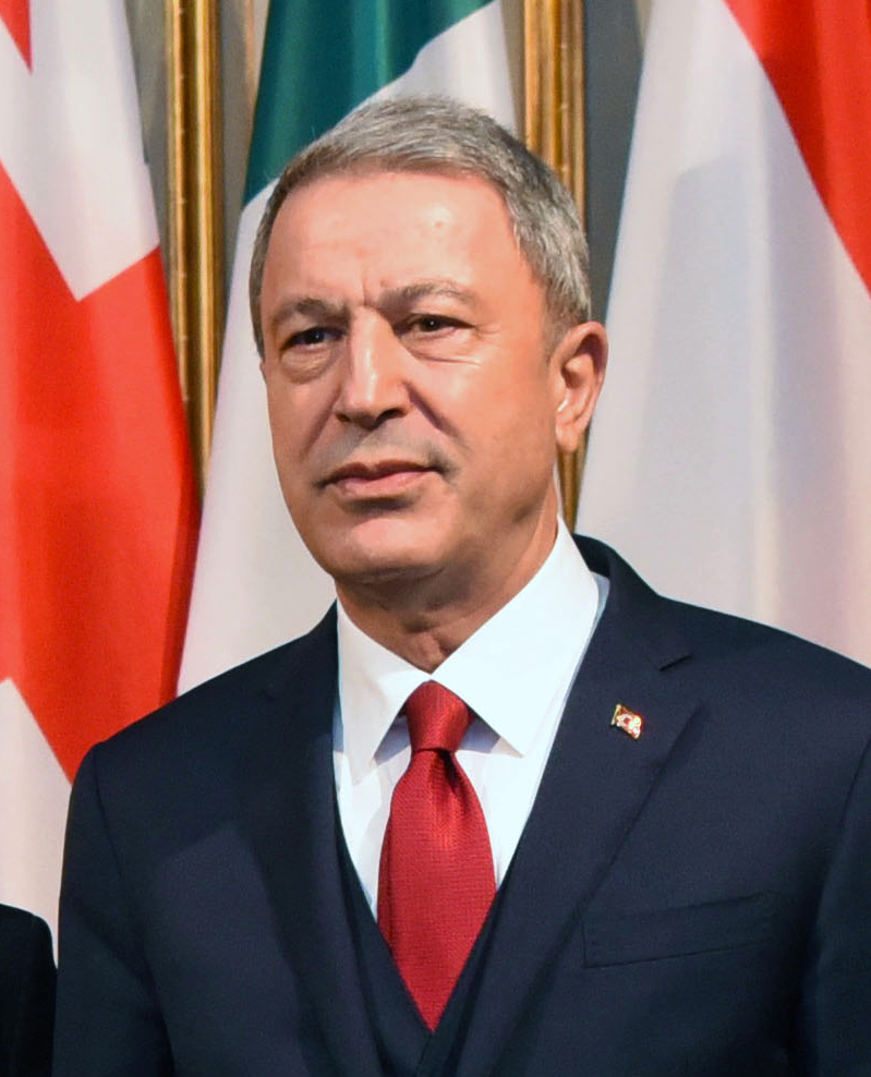 U.S. Acting Secretary of Defense Patrick M. Shanahan and German Minister of Defense Ursula von der Leyen welcome Turkish Defense Minister Hulusi Akar to a defeat-ISIS defense ministerial, Munich, Germany, Feb. 15, 2019. (DoD photo by Lisa Ferdinando)